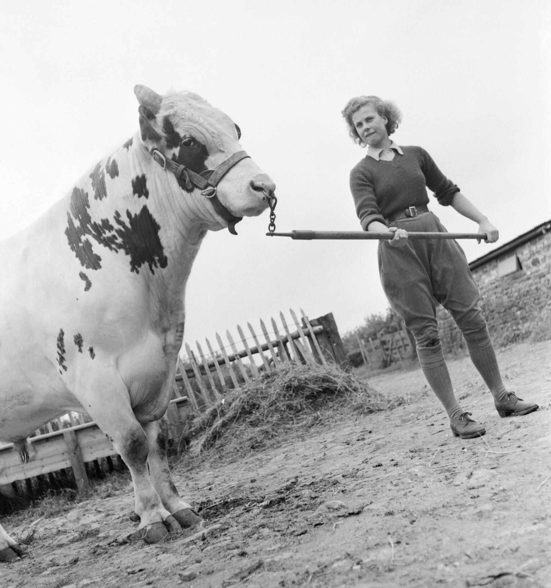 Land Girl Iris Joyce leading a bull at a farm somewhere in Britain during 1942. Land Girl Iris Joyce leads a bull at a farm somewhere in Britain. Iris had previously been a typist but after four weeks training at the Northampton Institute of Agriculture, she is now confident to deal with such animals and all aspects of her work in the Women's Land Army.